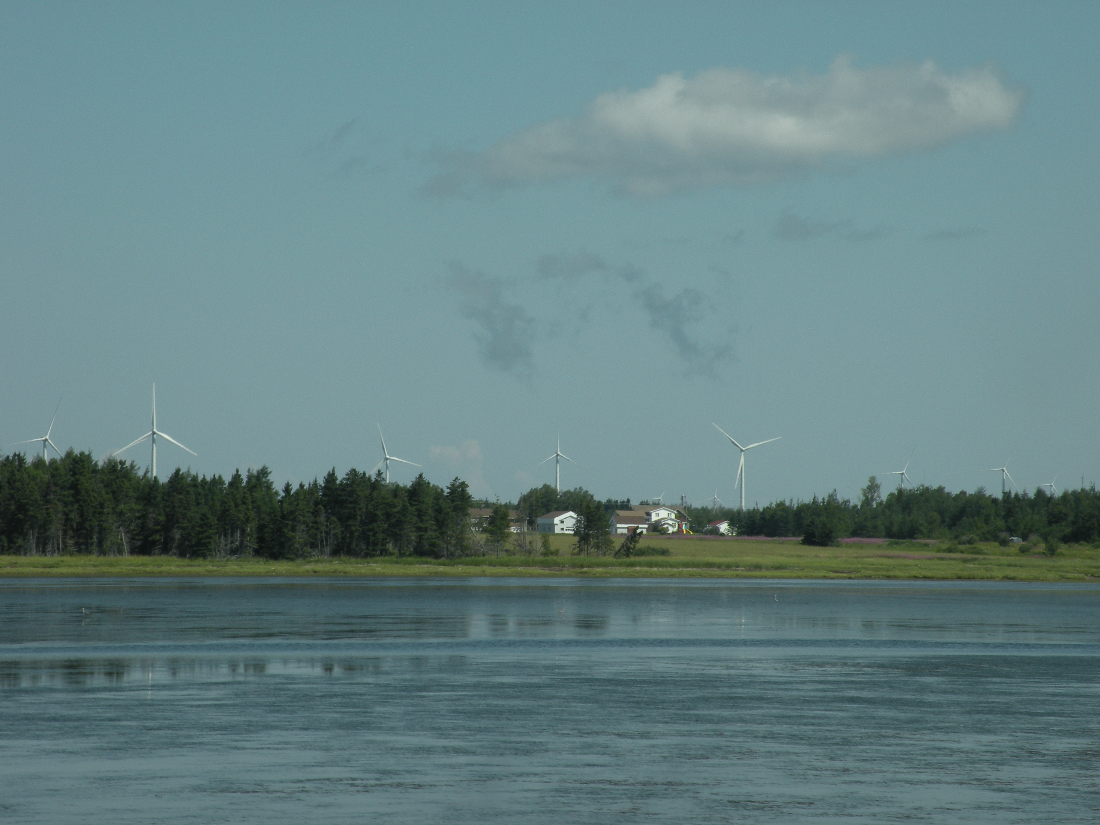 Charlemagne Creek in Lamèque, New Brunswick, Canada.